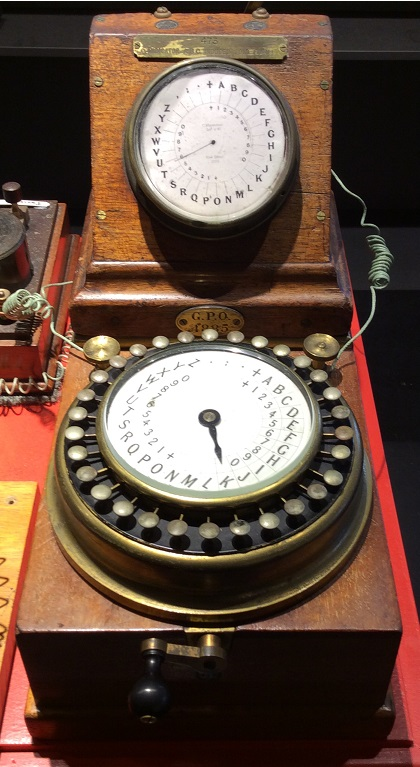 A magneto-alphabetical telegraph, as used by the General Post Office, displayed at Porthcurno Telegraph Museum, January 2019.